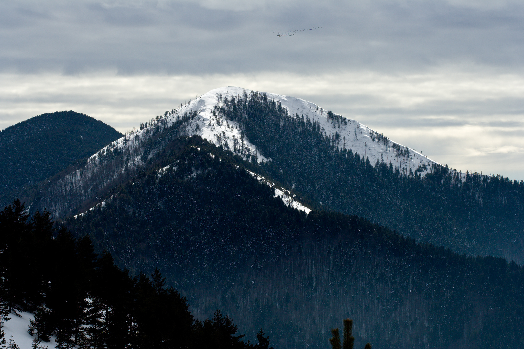 Sveshtnik summit in Southern Pirin mountain in Bulgaria, picture taken nearby Oreliak summit.